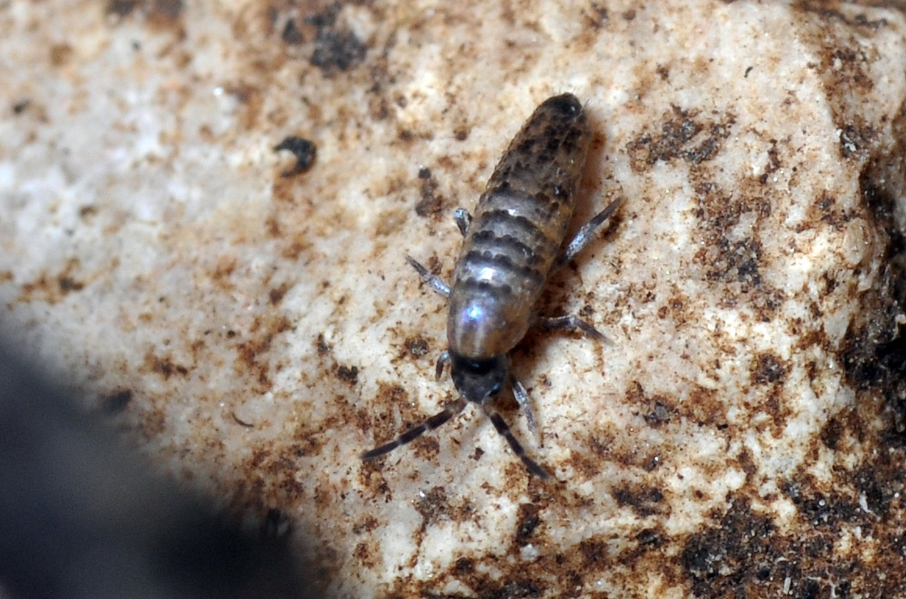 Lepidocyrtus curvicollis, a collembola member of the Entomobryidae family